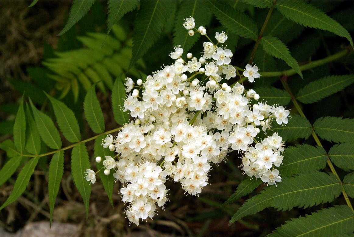 unknown plant - in China This is Sorbaria sorbifolia. Seysi.